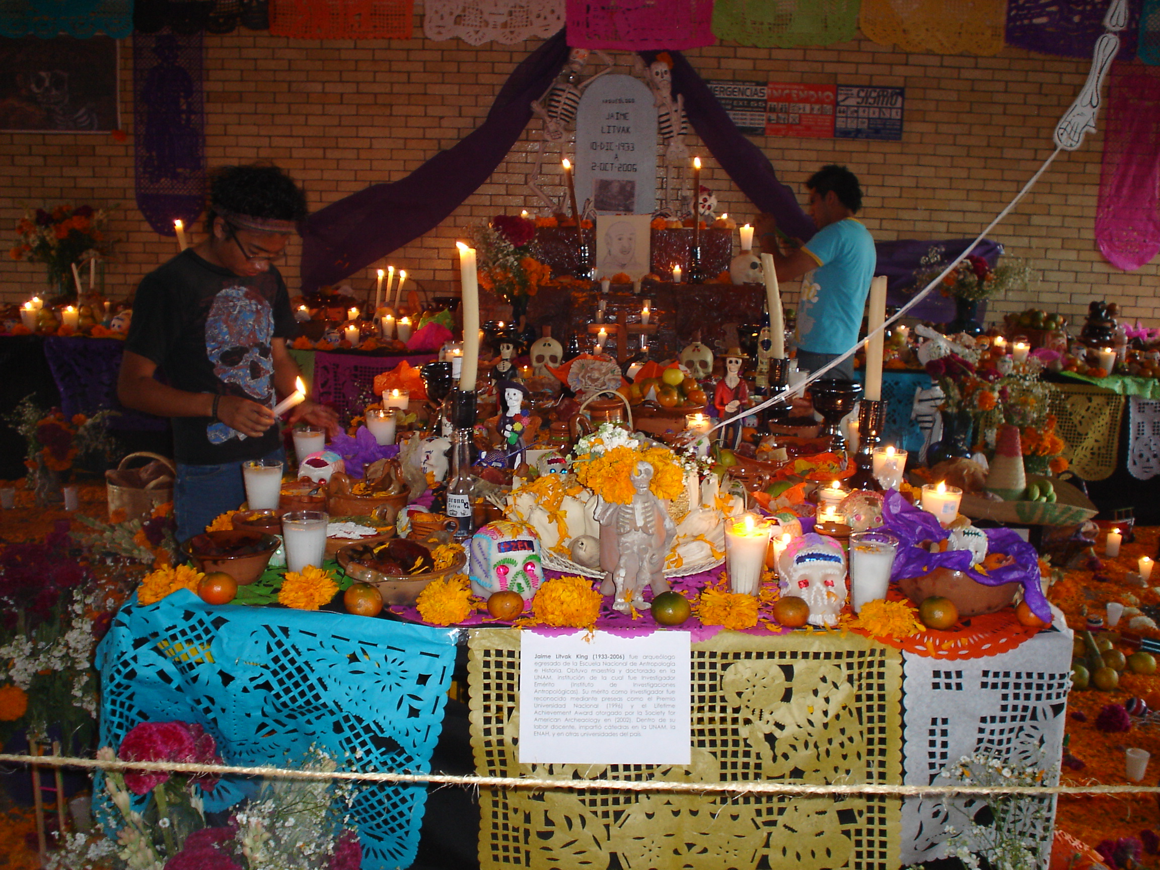 Day of the dead offerings, 2006